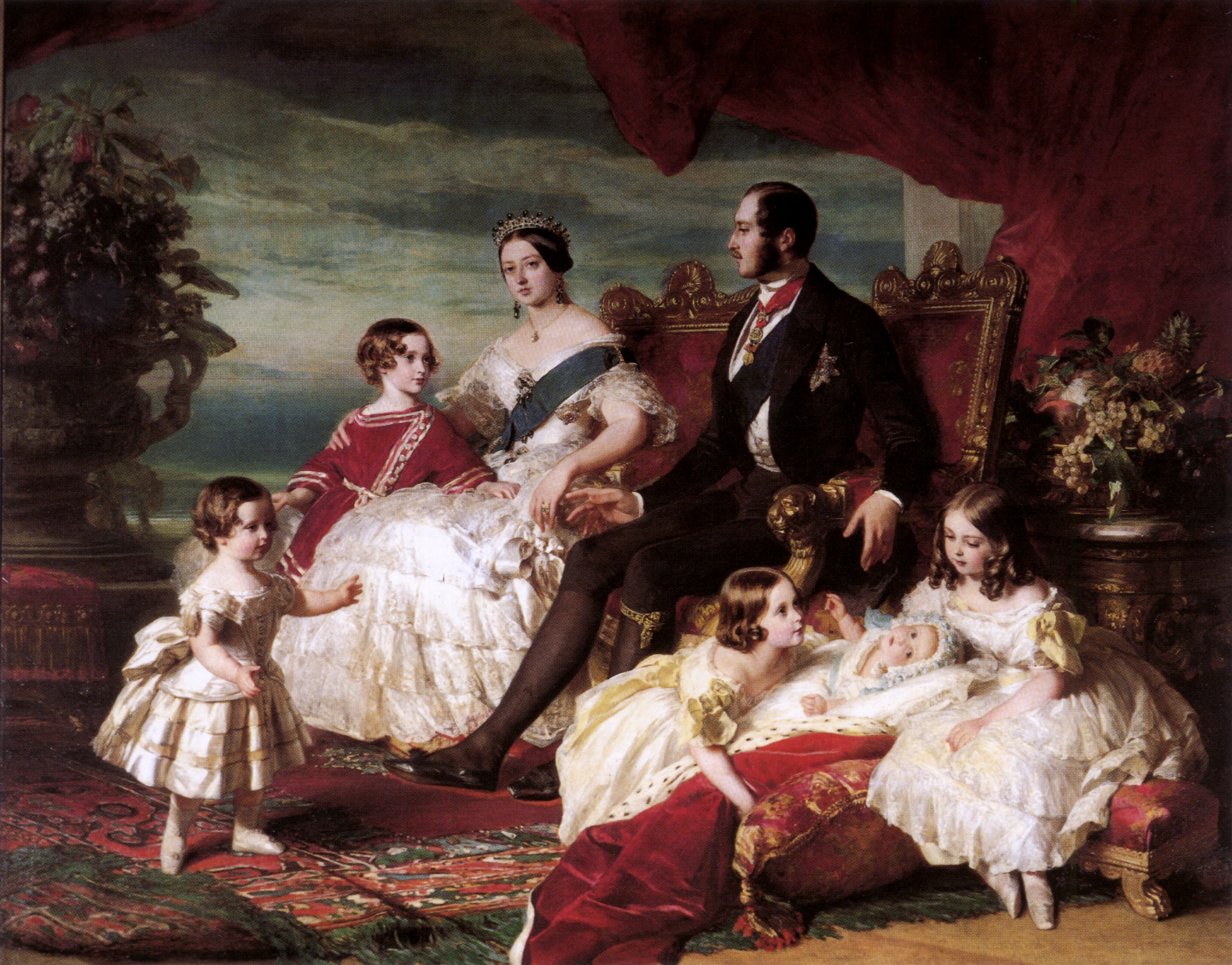 Portrait of Queen Victoria, Prince Albert, and their children This image is a JPEG version of the original PNG image at File: Queen Victoria, Prince Albert, and children by Franz Xaver Winterhalter.png. Generally, this JPEG version should be used when displaying the file from Commons, in order to reduce the file size of thumbnail images. However, any edits to the image should be based on the original PNG version in order to prevent generation loss, and both versions should be updated. Do not make edits based on this version. See here for more information.